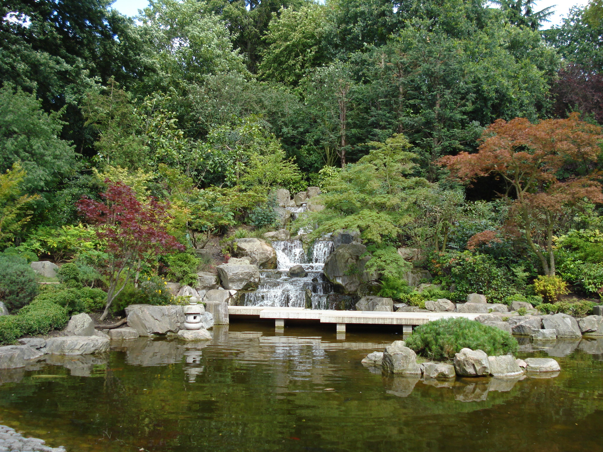 View of Waterfall and Pond in Holland Park,London,UK